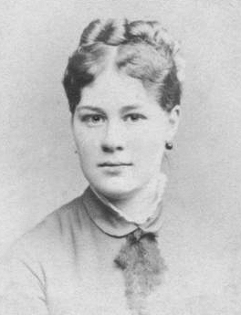 Cecilia Beaux (May 1, 1855 – September 7, 1942) was an American society portraitist.